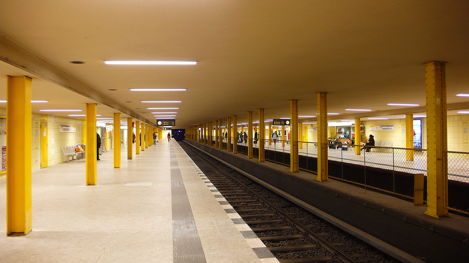 subway U6 Leopoldplatz